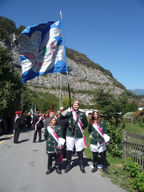 The delegation of the AV Staufer at the annual celebration of the Schw. StV in St. Maurice (VS, Switzerland).